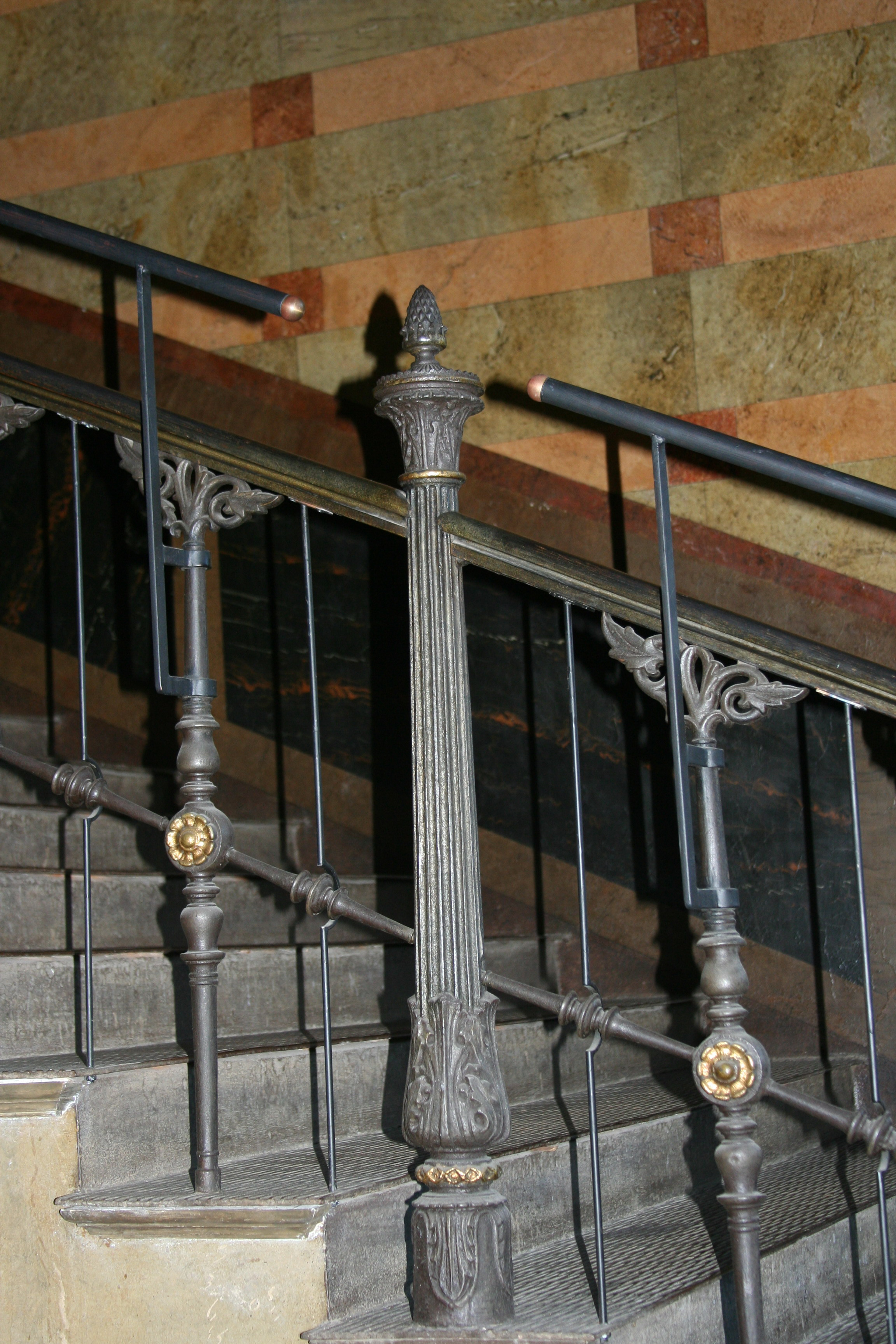 Helsinki University Museum, Arppeanum building, Helsinki, Finland. Main staircase. The bannister is made of cast iron and the steps of patterned steel plate. The lower, wood-coated rail is original, the upper, higher rail is newer. Architect Carl Albert Edelfelt. Completed in 1869.